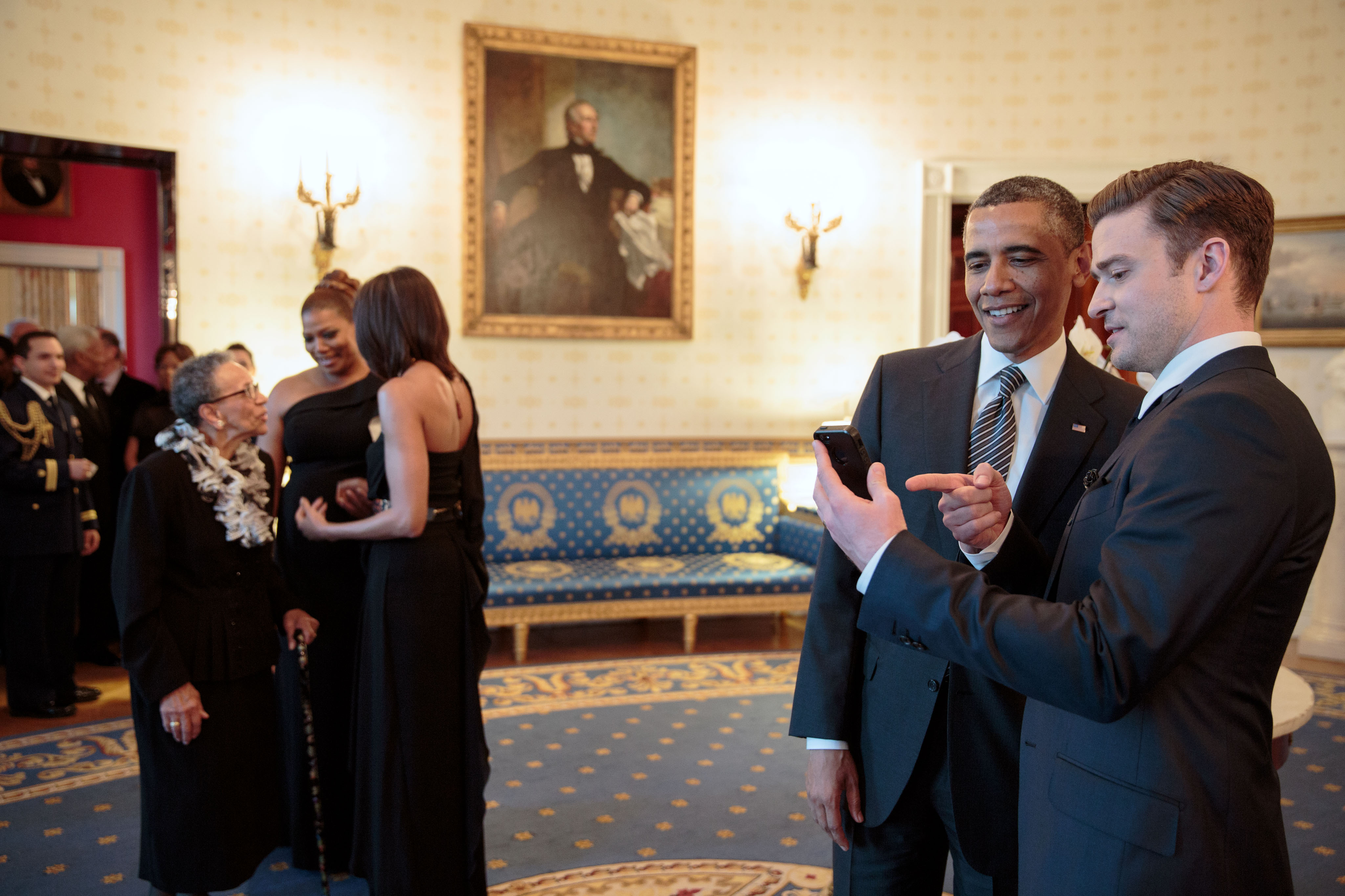 President Barack Obama talks with Justin Timberlake in the Blue Room of the White House prior to the “In Performance at the White House: Memphis Soul” concert in the East Room, April 9, 2013. At left, First Lady Michelle Obama talks with Queen Latifah and her grandmother, Katherine Viola Bray. (Official White House Photo by Pete Souza) This official White House photograph is being made available only for publication by news organizations and/or for personal use printing by the subject(s) of the photograph. The photograph may not be manipulated in any way and may not be used in commercial or political materials, advertisements, emails, products, promotions that in any way suggests approval or endorsement of the President, the First Family, or the White House.